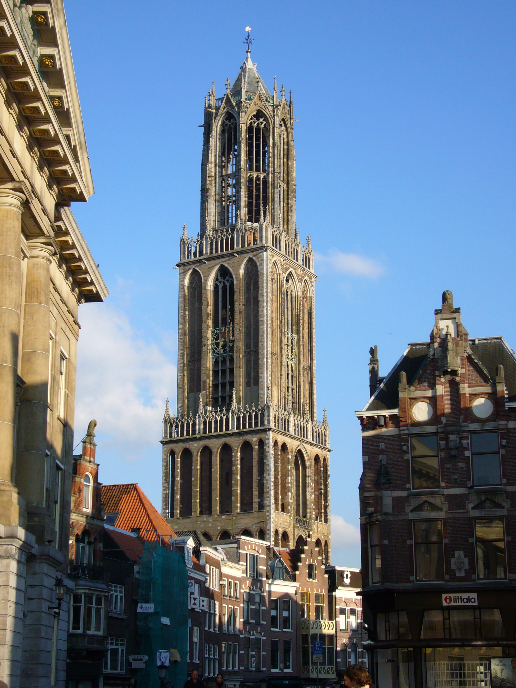 Dom cathedral tower seen from the Stadhuisbrug in Utrecht